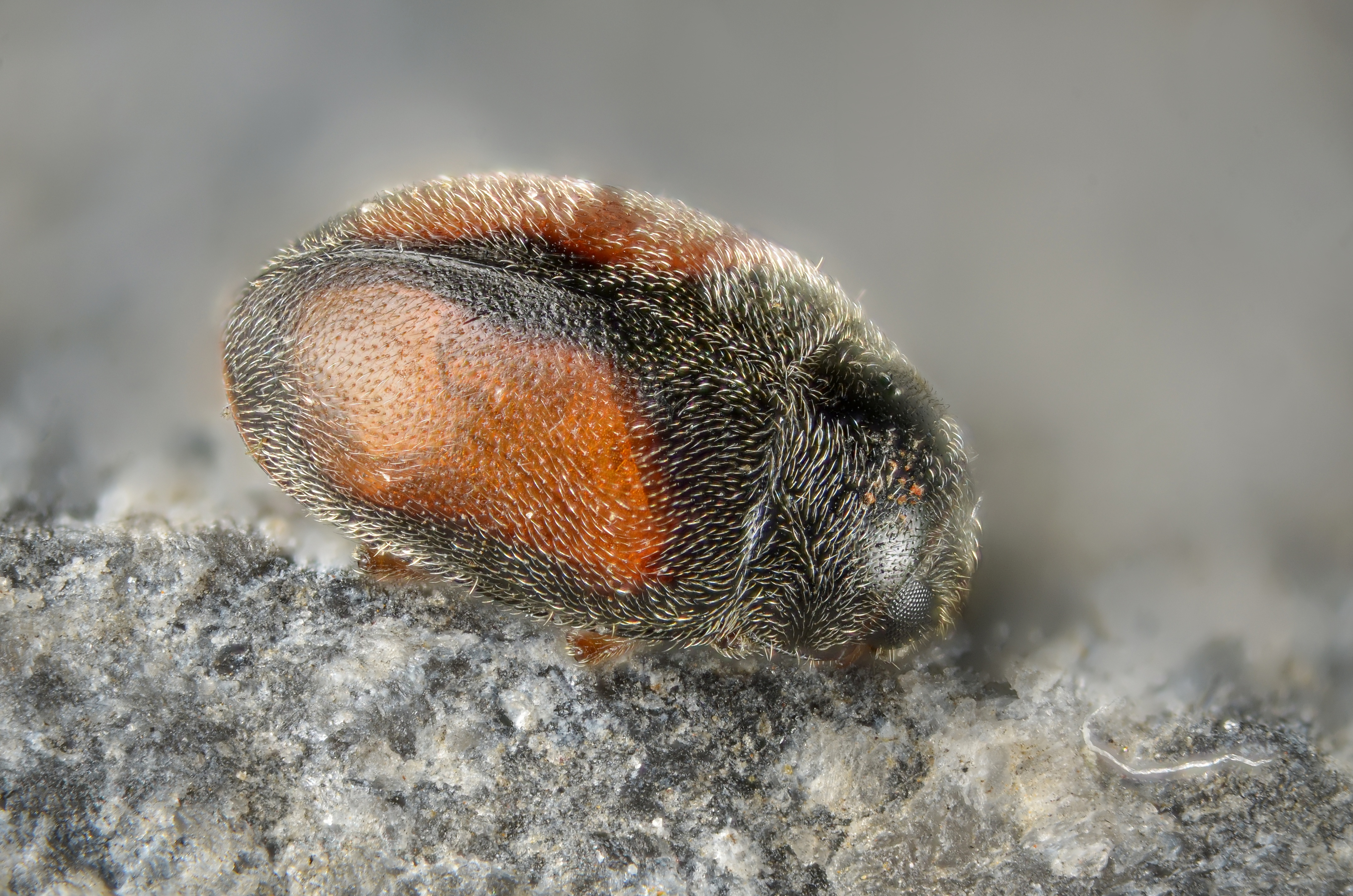 The ladybird Nephus redtenbacheri Focus stack of 38 pictures Microscope objective (Nikon achromatic 10x 160/0.25) dirrectly on the body